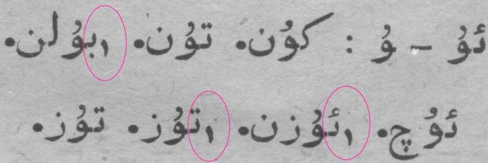 Text sample from a Tatar book from 1925 written in the Yaña imlâ variant of the Arabic script, showing encircled specimens of the Unicode 7.0 letter U+08AD arabic letter low alef